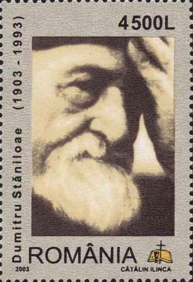 Stamps of Romania, 2003